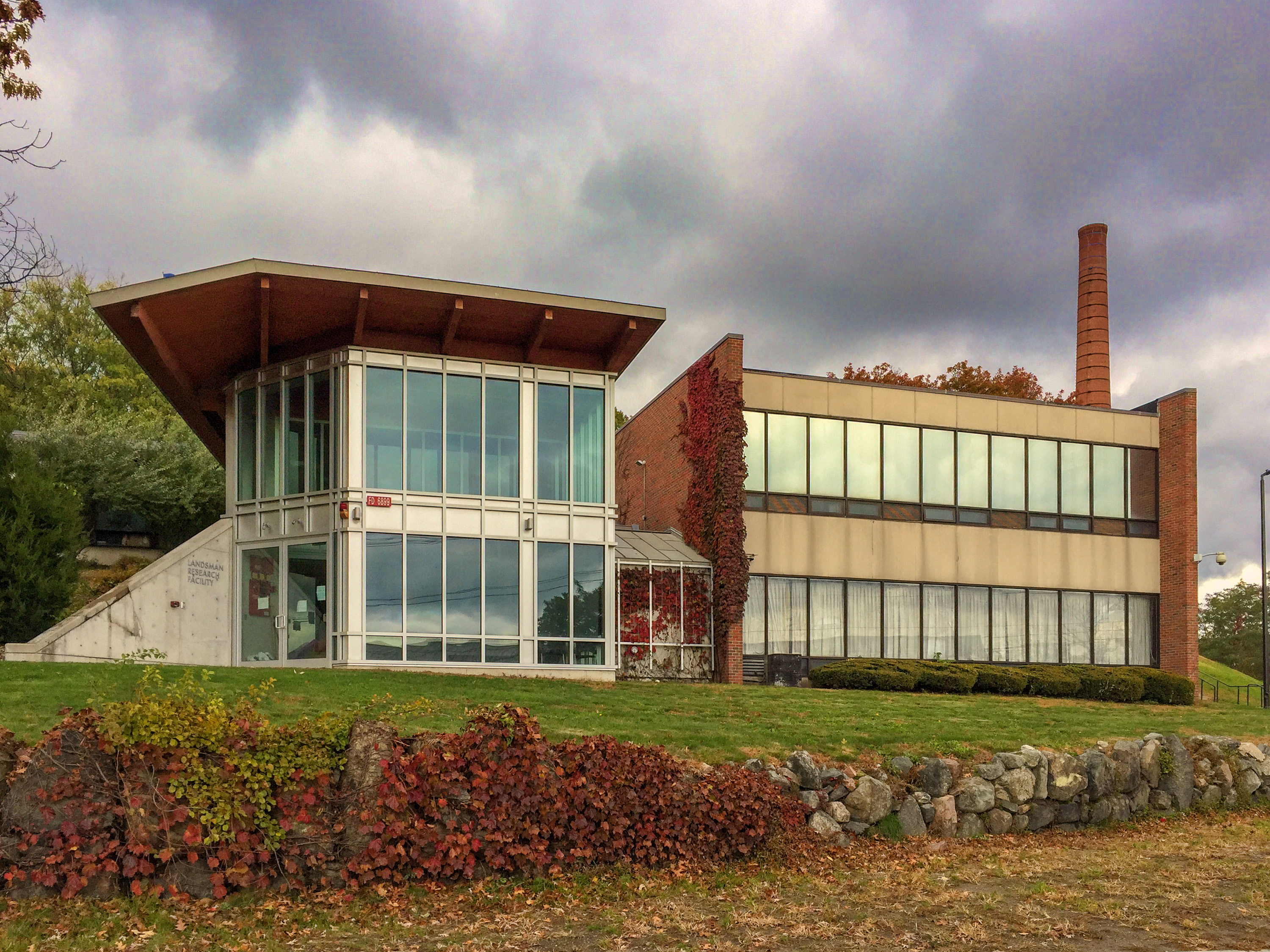 Landsman Research Facility, Brandeis University. Completed construction in the fall of 2005